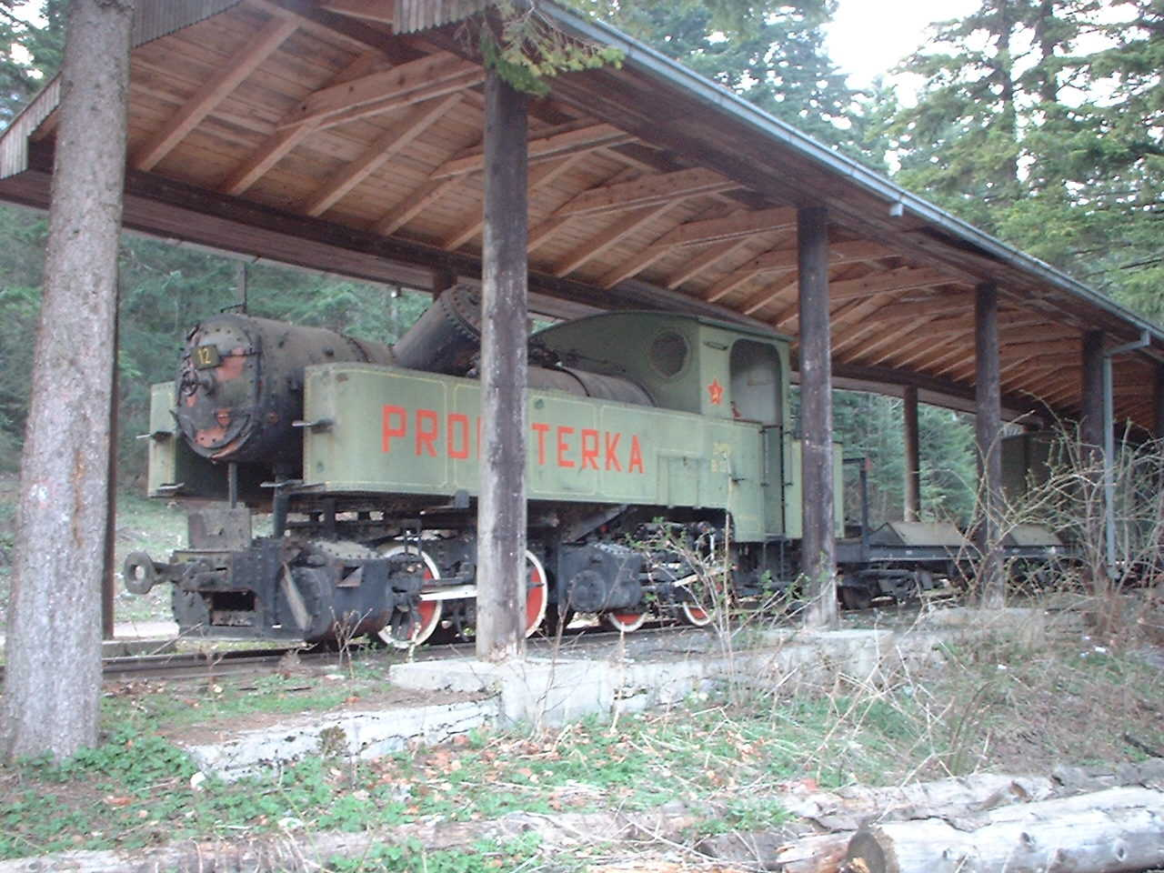 Mallet type Steinbeisbahn engine No. 12 under roof in Ostrelj.